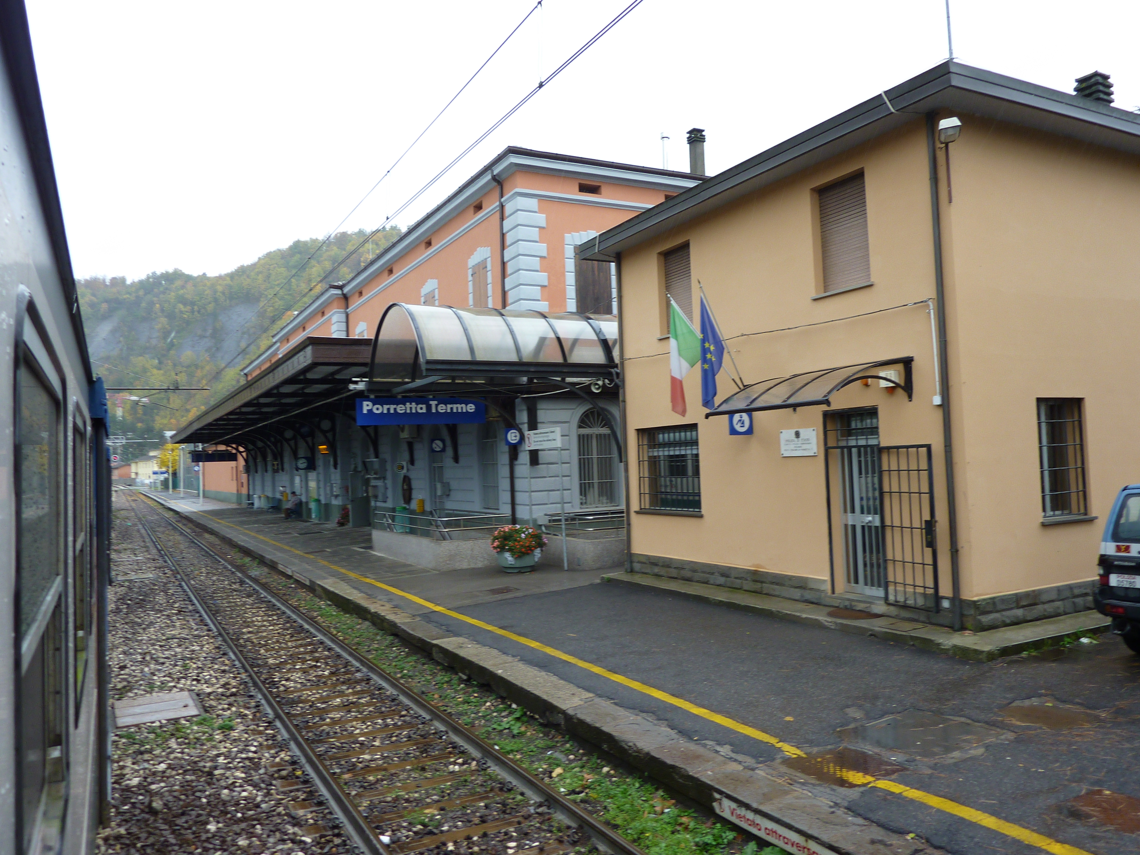 Railway station Porretta Terme, in Emilia Romagna (Bologna area), Italy